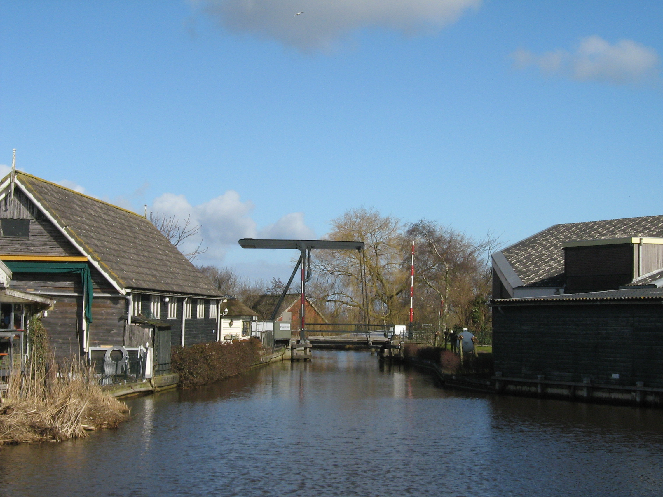 The village of Stokkelaarsbrug, De Ronde Venen municipality, the Netherlands. There are two bridges in the village; the one shown (from the south) is the northwestern one.